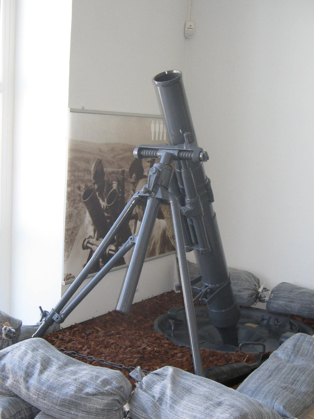 120 mm mortar M1942, a copy of Soviet PM-38 in Park of Military History, Pivka, Slovenija